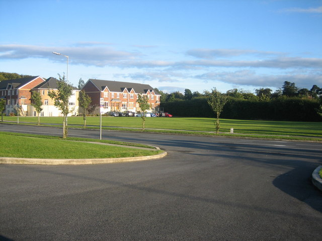 College Fort, Castleknock